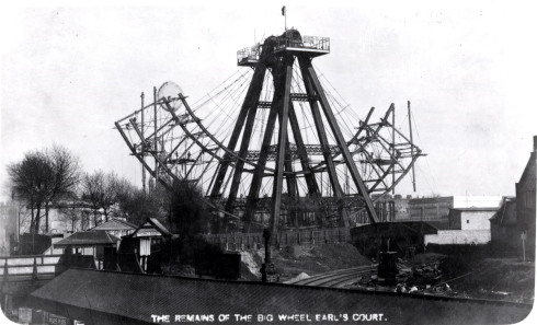 Dissmounting the Big Wheel London